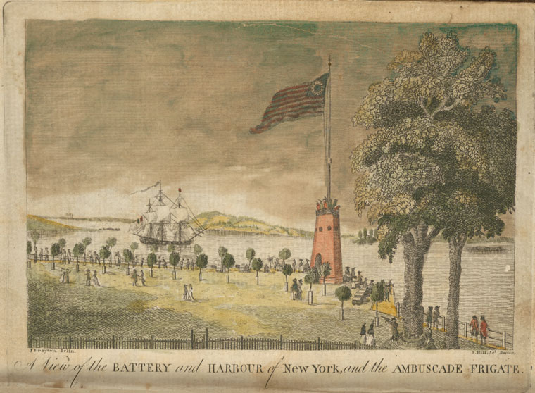 An early view of the Battery, it shows recent tree plantings and other improvements. The flagstaff base, characterized as a "gigantic churn" by Washington Irving, was built in 1790. Print depicts June 10-20, 1793 visit of French frigate Embuscade (1789) to Battery Park and Evacuation Day commemorative flagpole.